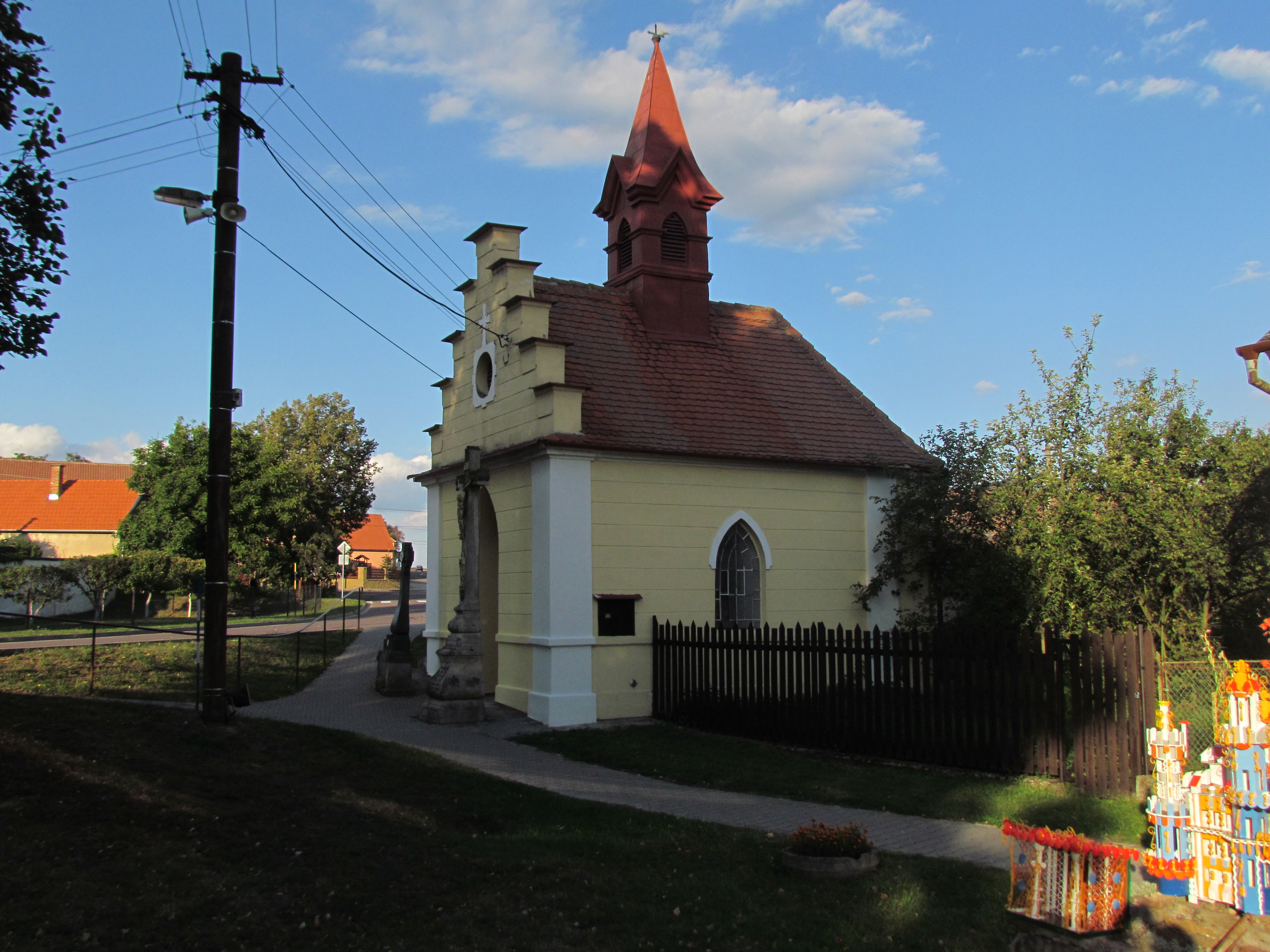 Wide overview of chapel of Holy Guardian Angel in Zvěrkovice, Třebíč District.